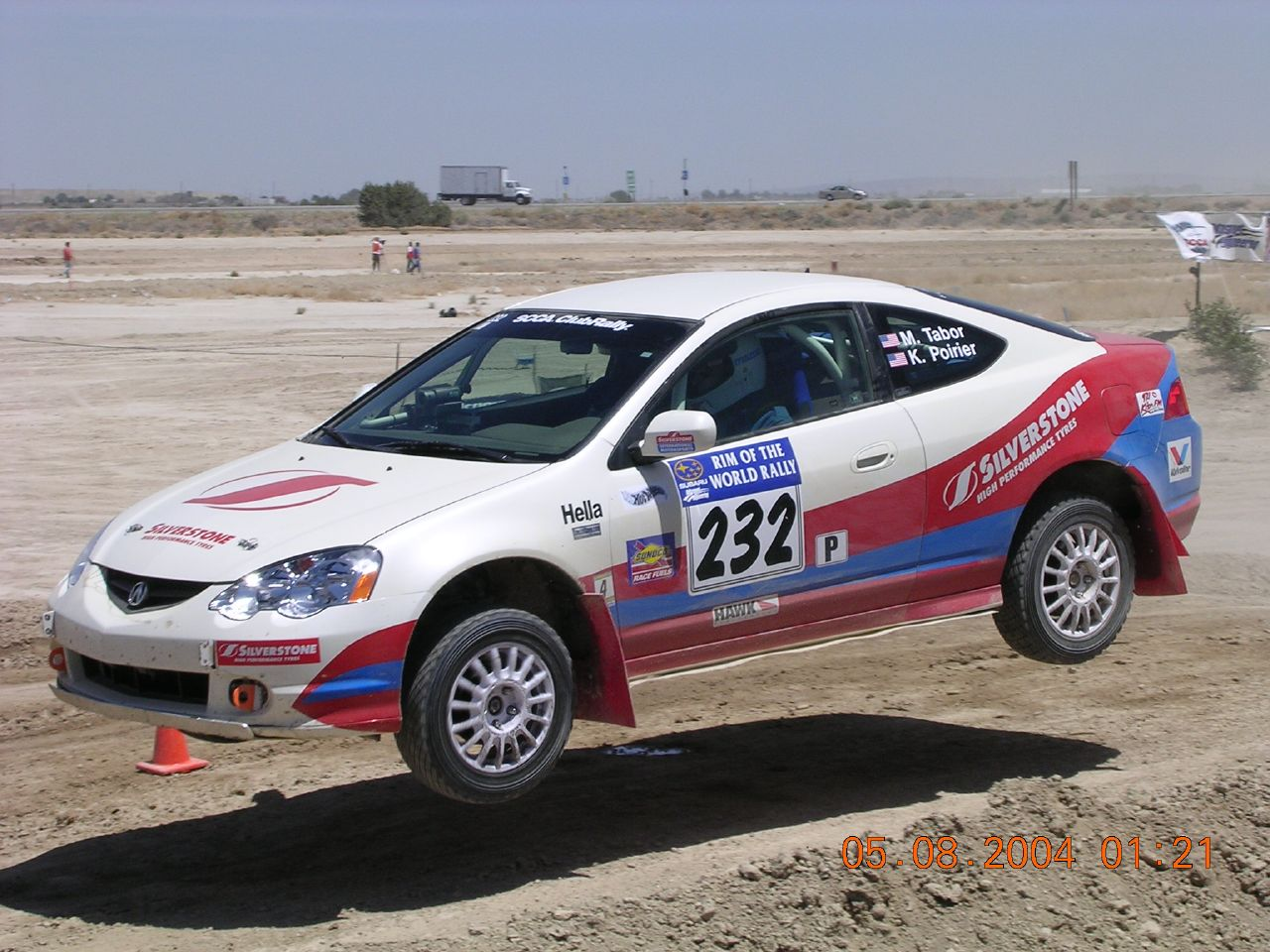 Rim Of The World Rally 2004, Lancaster, California